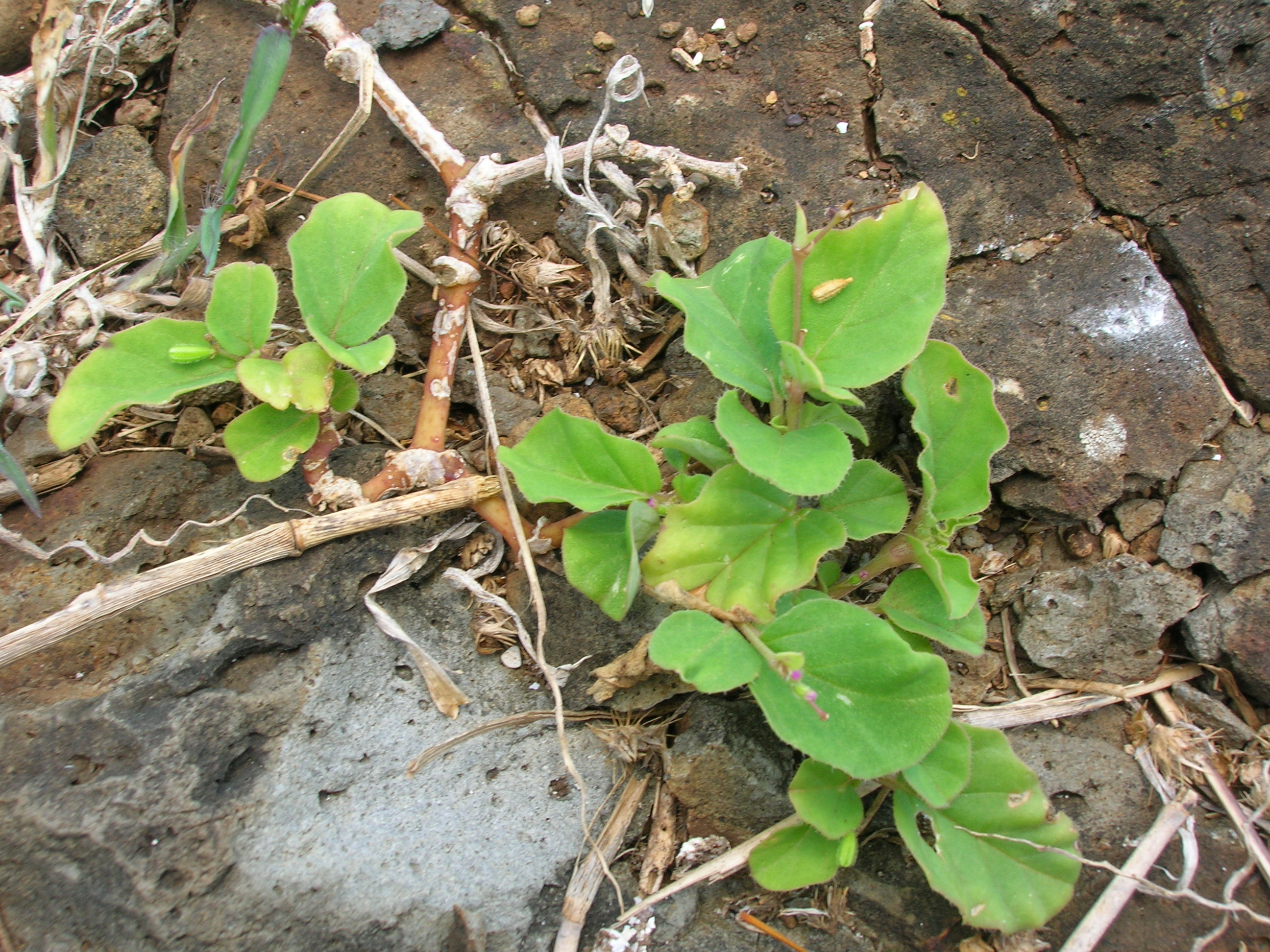 Boerhavia coccinea (habit). Location: Oahu, Mokolii